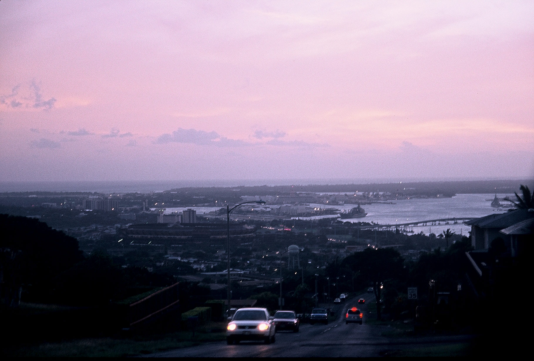 view from Puliki Place in Aiea Heights down to Pearl Harbor